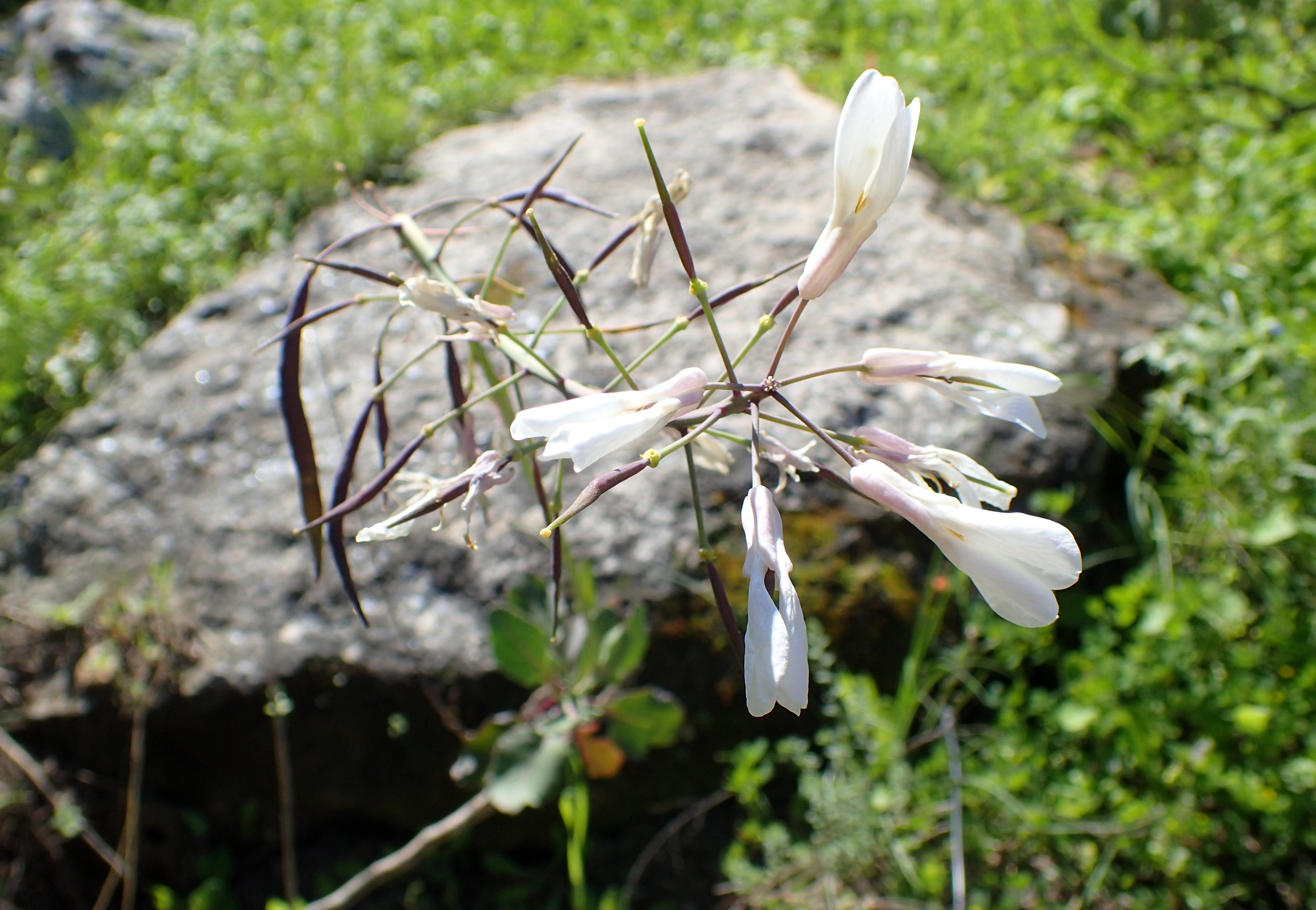 Brassica hilarionis in Akamas Botanical Garden, Cyprus